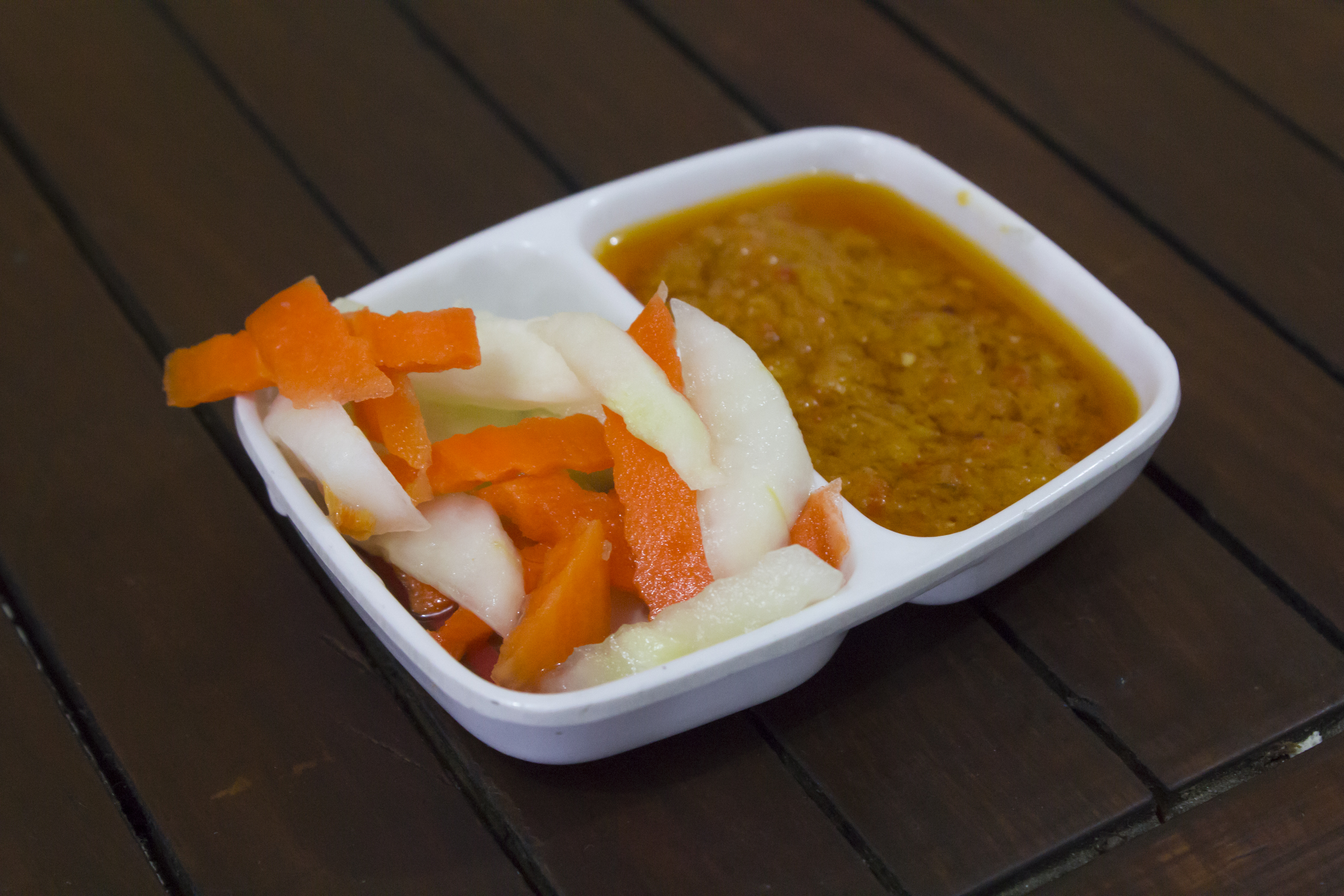 Acar (left) with chili sauce (sambal) served as a condiment